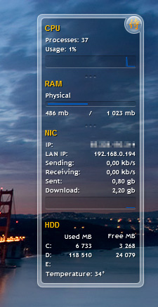 Screenshot of samurize